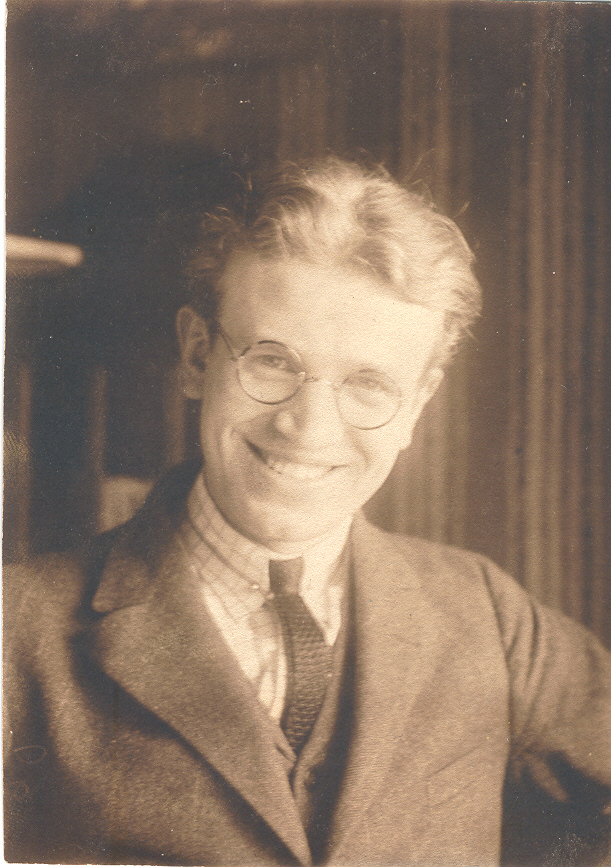 Portrait of the Dutch poet Willem ten Berge.